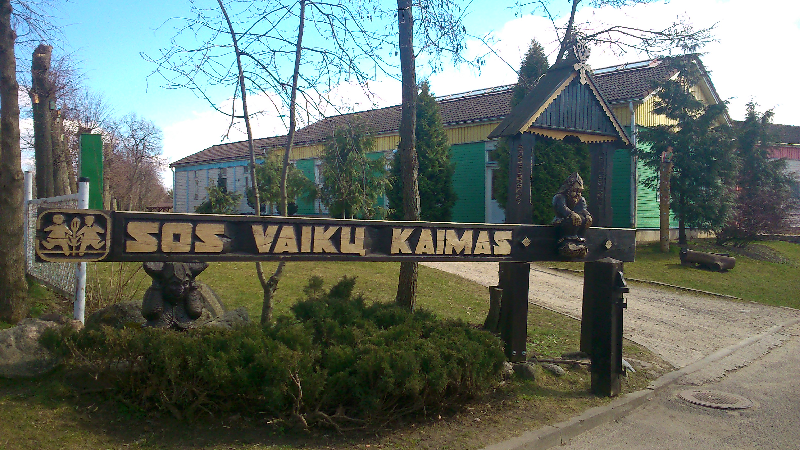 SOS Vaikų kaimas